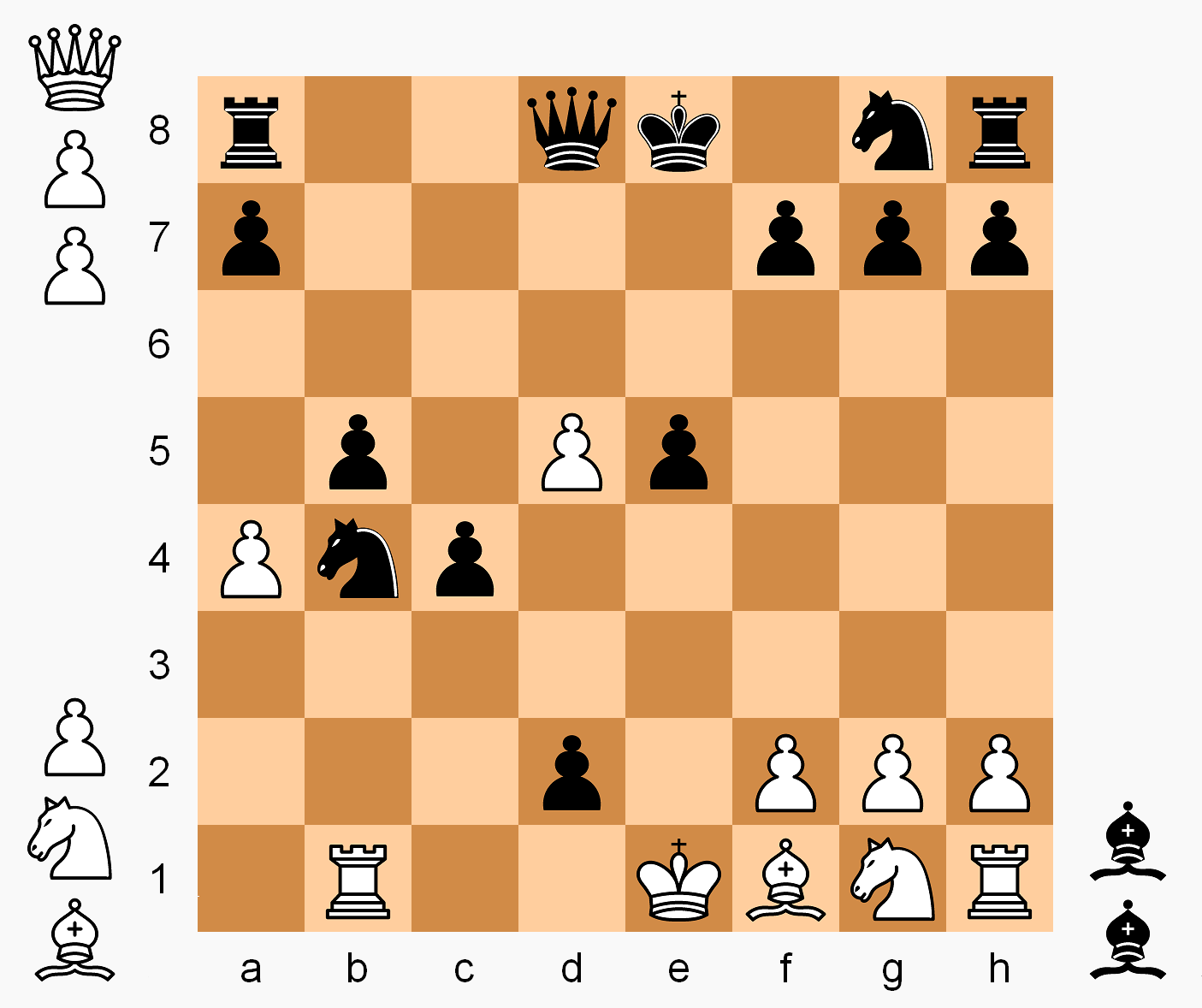 Made in PAINT using ProjChess colors and the great chess icons fashioned by David Benbennick (User:Dbenbenn).